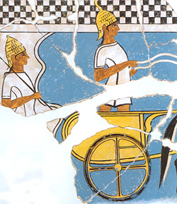 Two helmeted warriors and chariot on a fresco from Pylos dated LH IIIA/B (about 1350 BC).